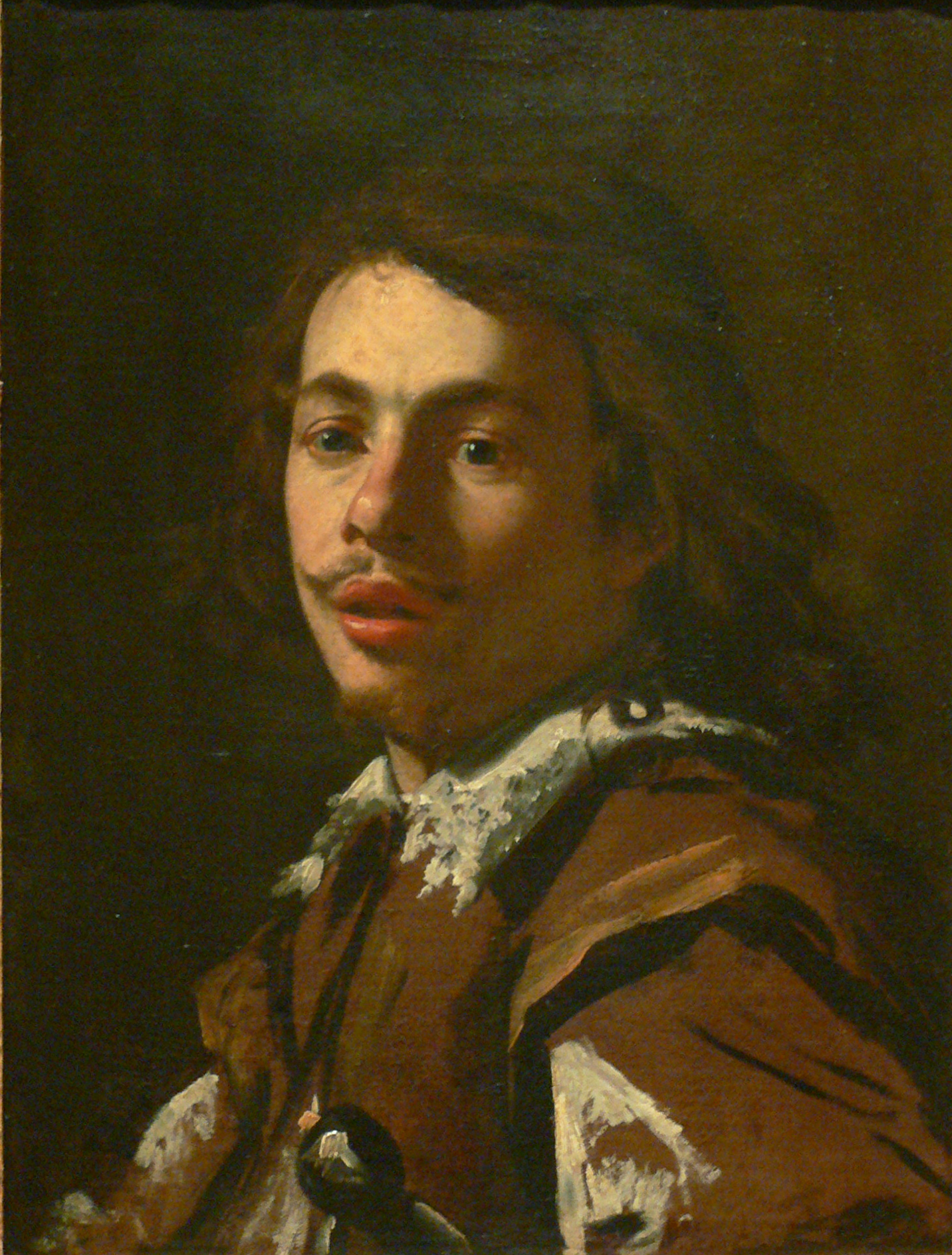 This portrait has long been thought to be an autoportrait of Simon Vouet (1590-1649) but rather seems to be a portrait of his younger brother Aubin Vouet (1595-1641)